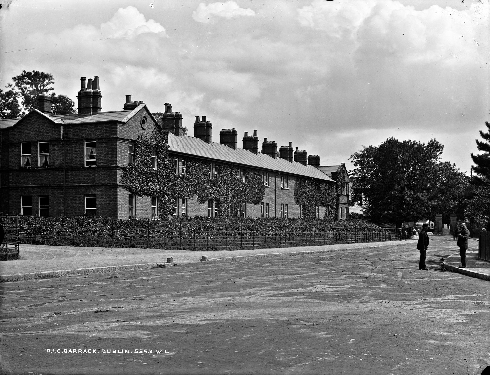 Situated just inside the North Circular Road gates to the Phoenix Park these lovely, old, red bricked buildings always seemed separate from the old RIC Depot. Was Mr. French correct in his assertion that it was part of the Depot? It is certainly not the image that is shown these days for Garda Headquarters. The suggestion (proposed by [/photos/bernardhealy/ Bernard Healy] and endorsed by [/photos/gnmcauley/ Niall McAuley] and [/photos/swordscookie/ swordscookie]) is that these were the 'Married Quarters' for RIC members and families based at the main Depot. Though only very slightly modified over the years since, the modern StreetView doesn't include the armed sentries which [/photos/47297387@N03/ Carol Maddock] tells us patrolled the site in the decades around this photo.... Photographer: Robert French Collection: Lawrence Photograph Collection Date: Catalogue range c.1865-1914 NLI Ref: L_ROY_05563 You can also view this image, and many thousands of others, on the NLI’s catalogue at